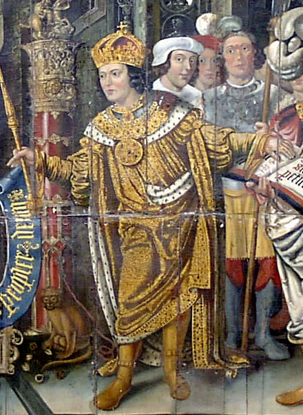 Source is which describes this painting as follows: "In 686 king Caedwalla issued a charter confirming the rights and territories previously given to Wilfrid by king Aethelwealh and the estate of the Hundred of Pagham including Shripney, Charlton, Bognor, Bersted, Crimsham, Mundham and Tangmere. The handing over of the charter is brilliantly depicted in the Lambert Barnard mural in the south transept of Chichester Cathedral commissioned by Bishop Robert Sherburne c 1508-1536." The picture has been clipped to just Caedwalla's face